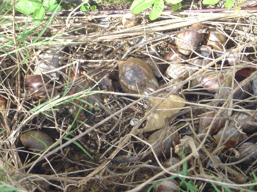 Caramujo-gigante-africano